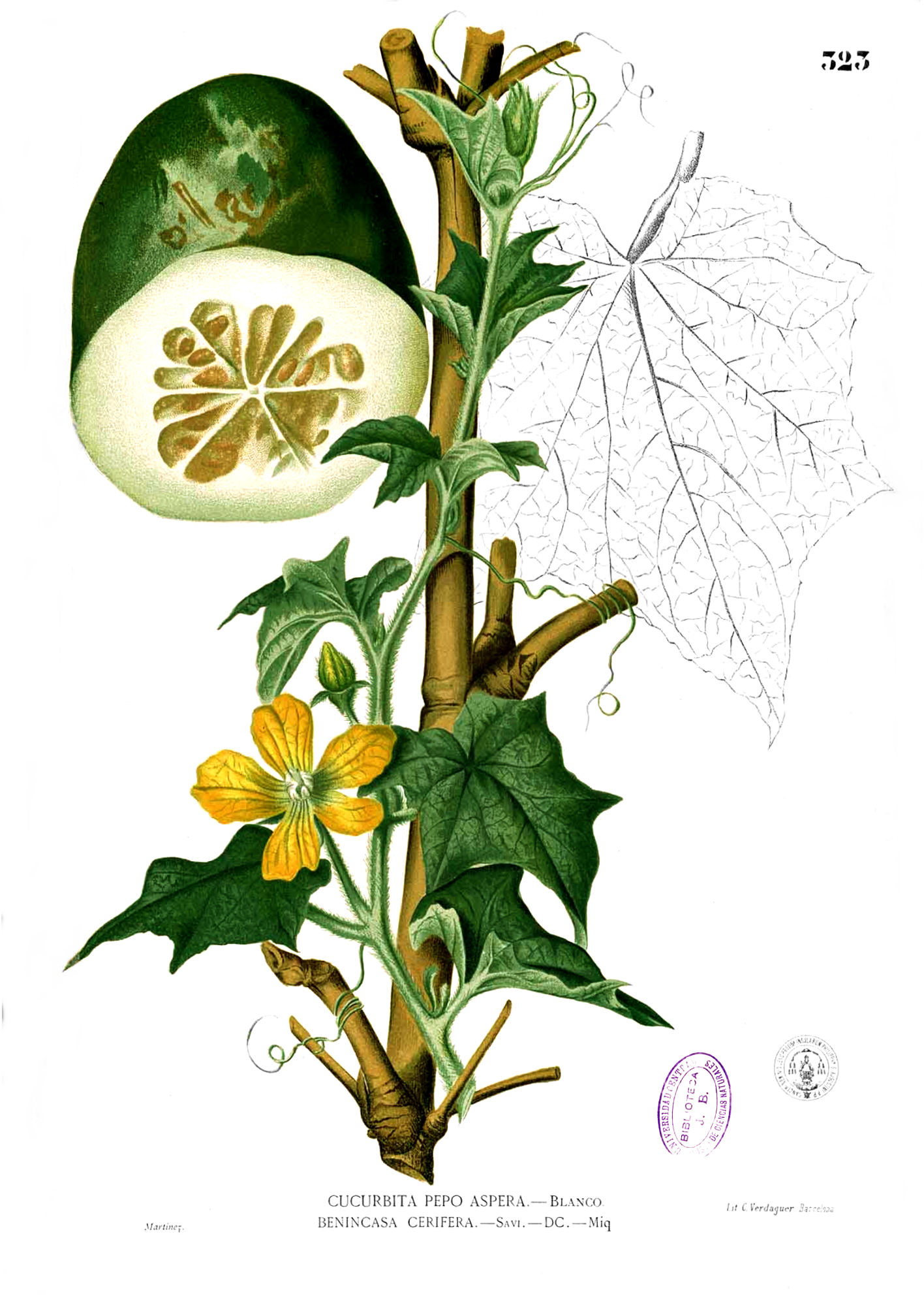 Plate from book